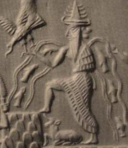 Enki (detail of the Adda seal, British Museum 89115)